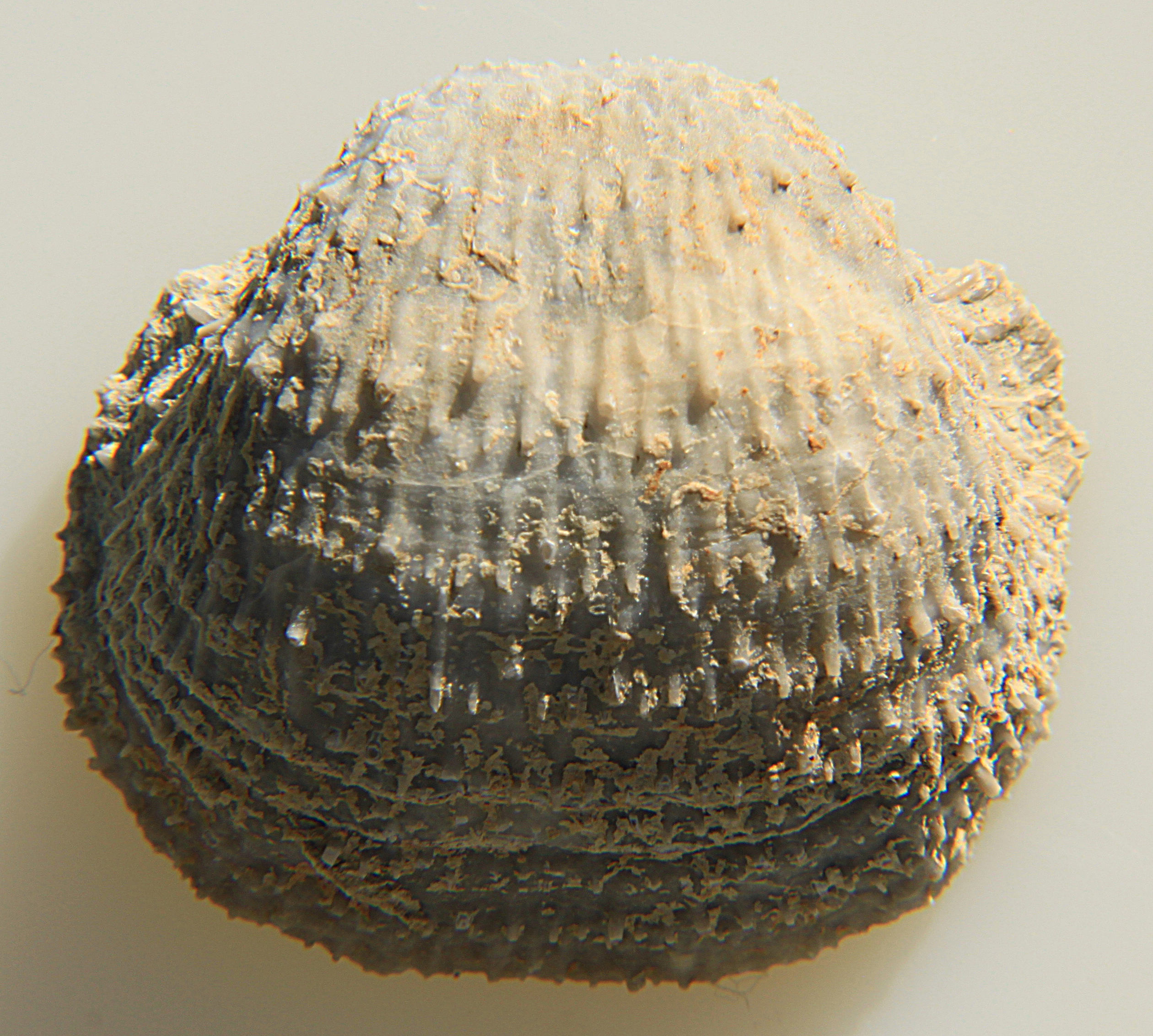 A Dictyoclostus bassi lampshell, pedunculate valve, Order Productida, Family Productidae, 23mm measured along the axis, collected from the Pueblo Formation, Wolfcamp Series, Shackleford County, Texas, USA, from the Lower Permian (Asselian)